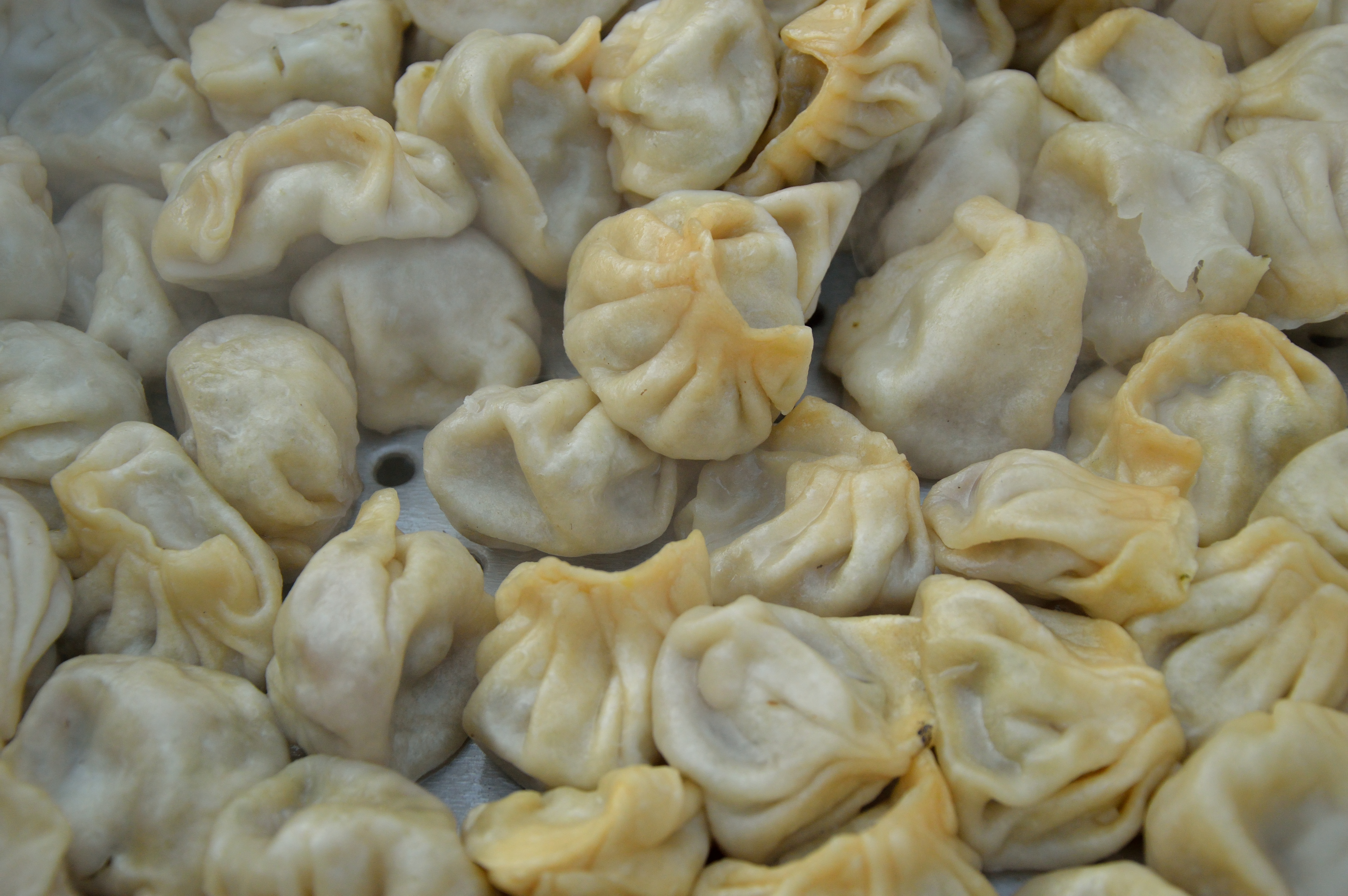 Photographed on the last day of the 38th International Kolkata Book Fair, Milan Mela Complex , Kolkata.